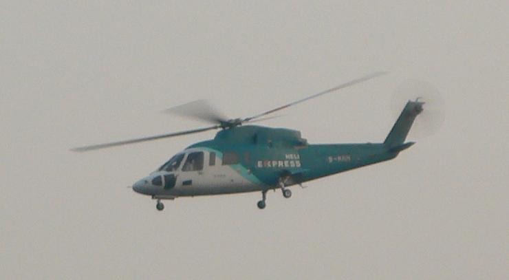 A Helicopter of Heli Express, a regular helicopter service between Macau Ferry Terminal and Shun Tak Centre of Hong Kong